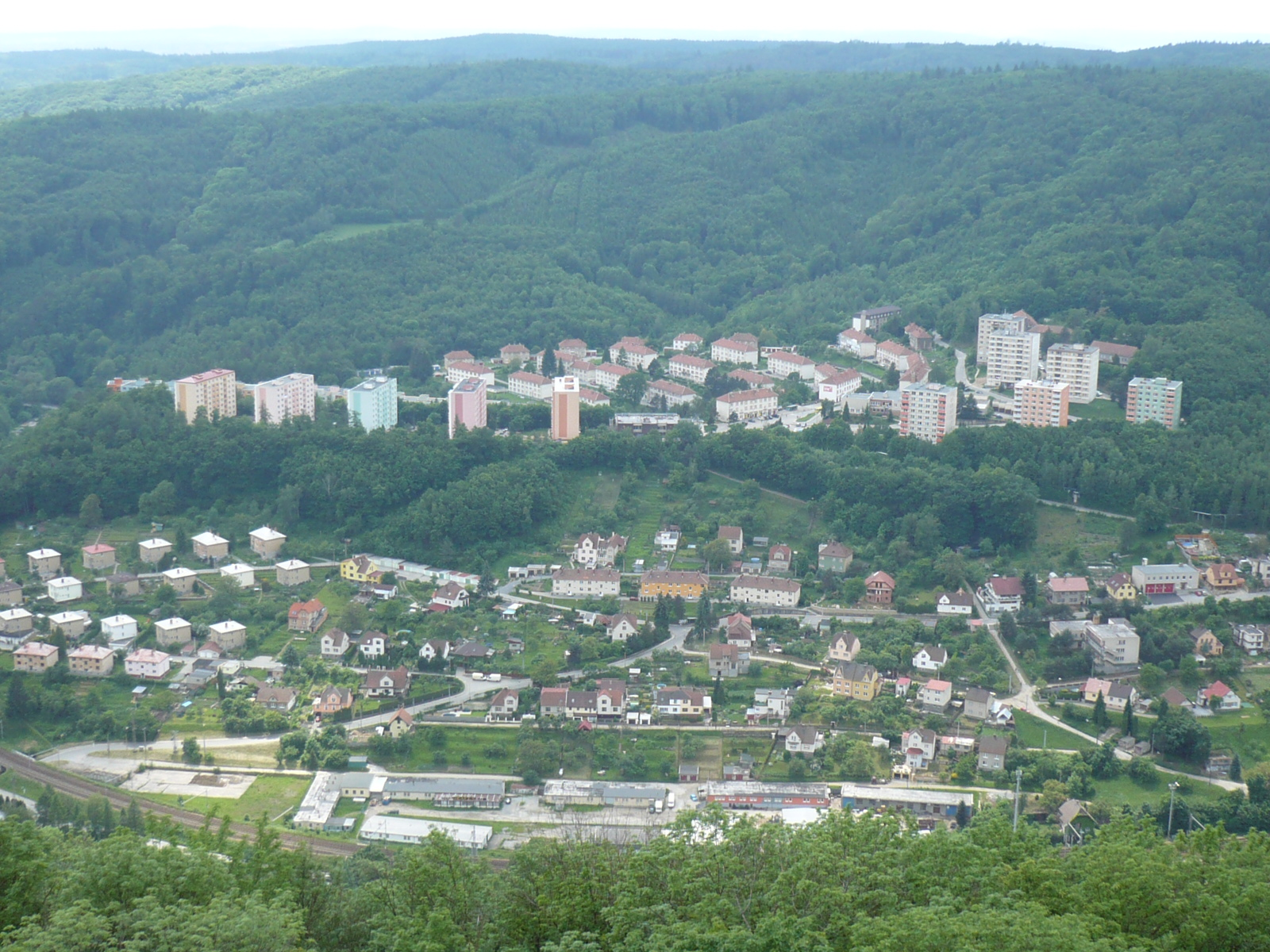 Alexandrova Observation tower, near Adamov, Czech Republic